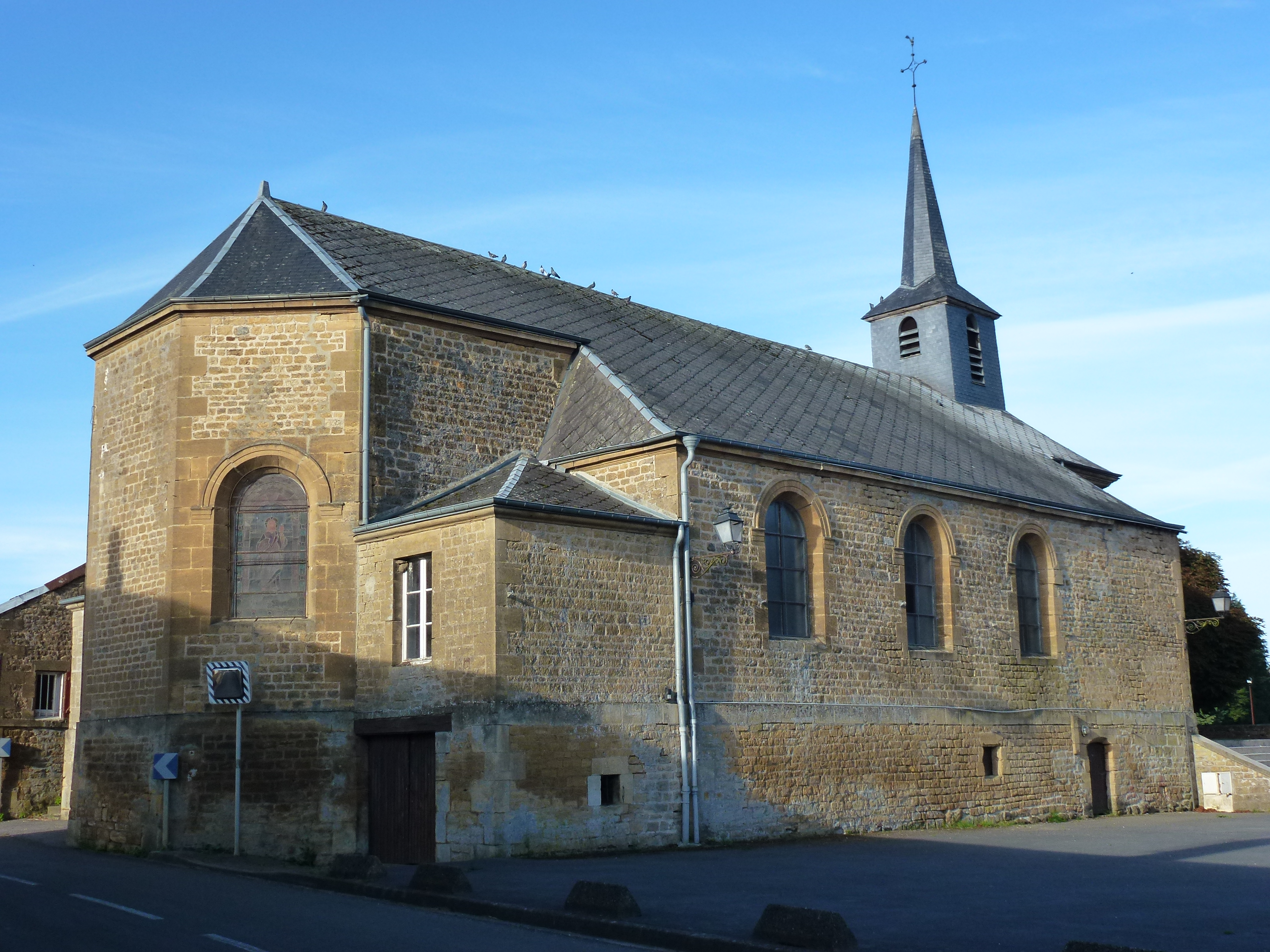 Haudrecy (Ardennes) église, chevet